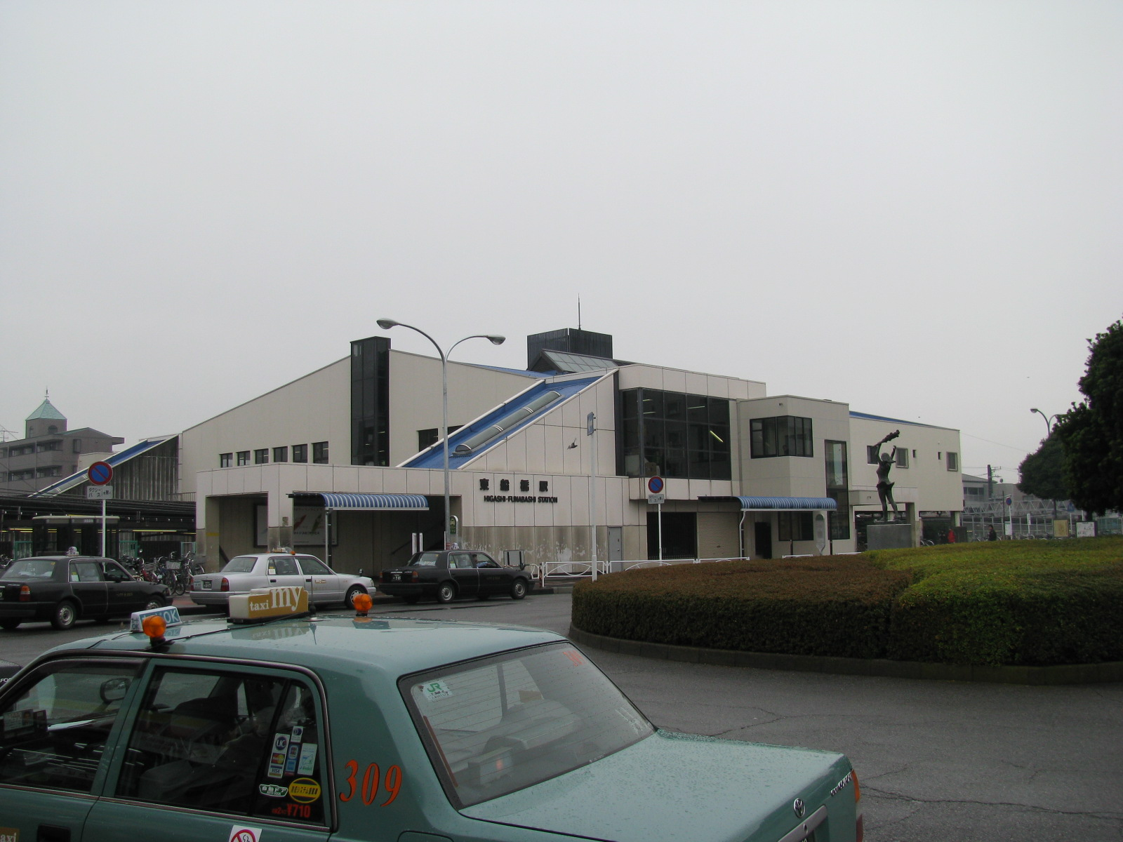 North side of Higashi-Funabashi Station on the Chuo-Sobu Line